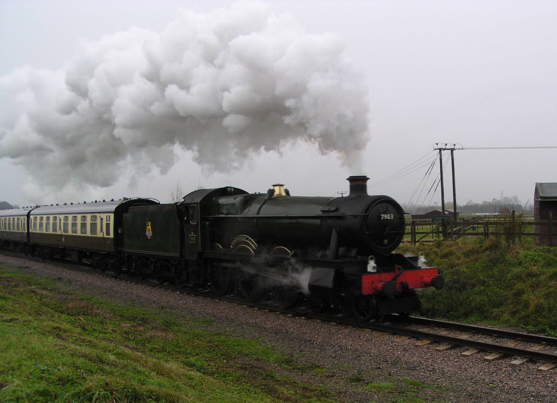 GWR 4-6-0 Modified Hall Class no. 7903 "Foremarke Hall" departing Cheltenham Racecourse on the Gloucestershire Warwickshire Railway on 20th November 2004.